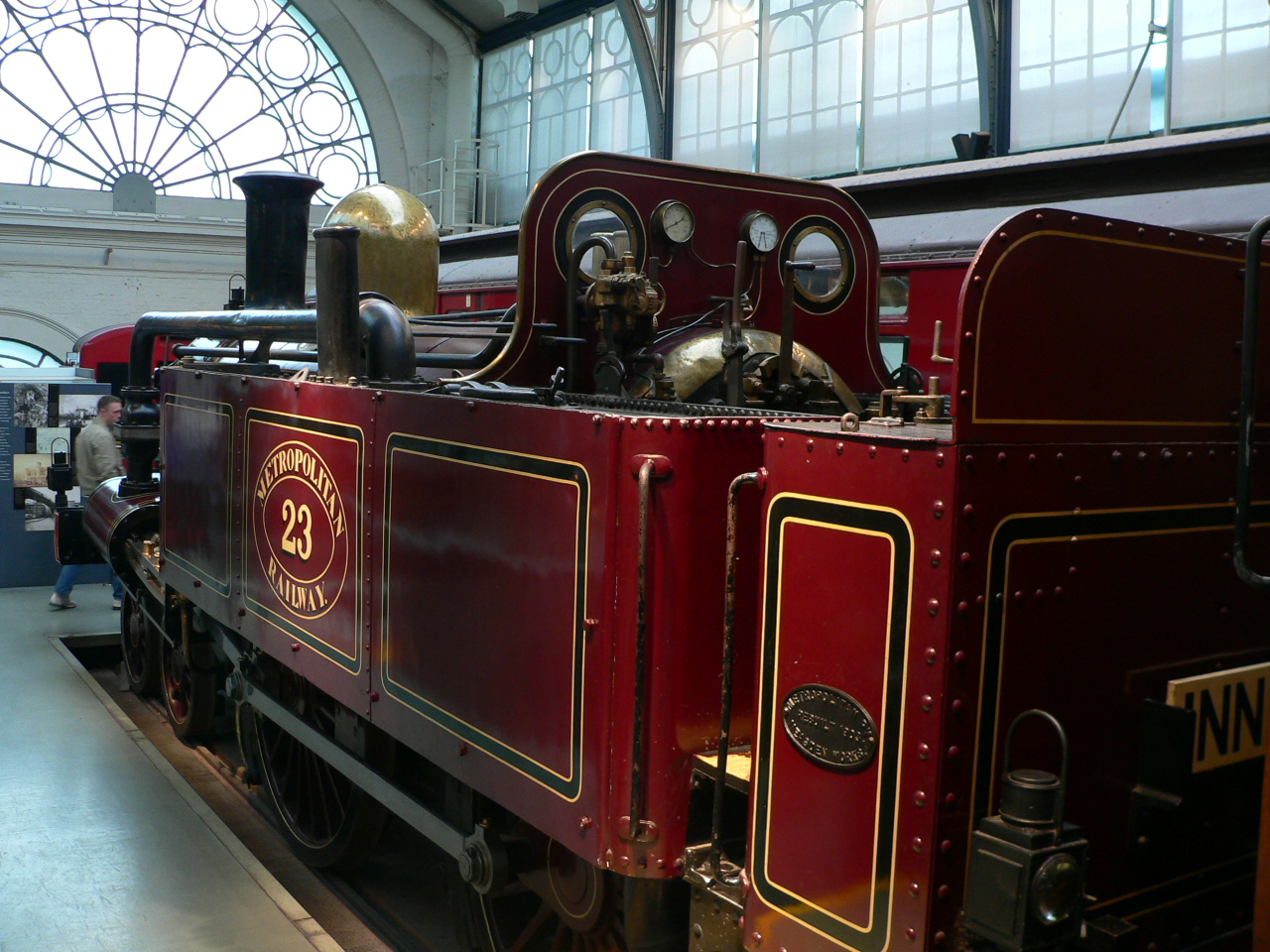 Metropolitan Railway A Class 4-4-0T steam locomotive 23, built 1866. This is the only surviving locomotive from the world's first underground railway. It is preserved at London's Transport Museum in Covent Garden